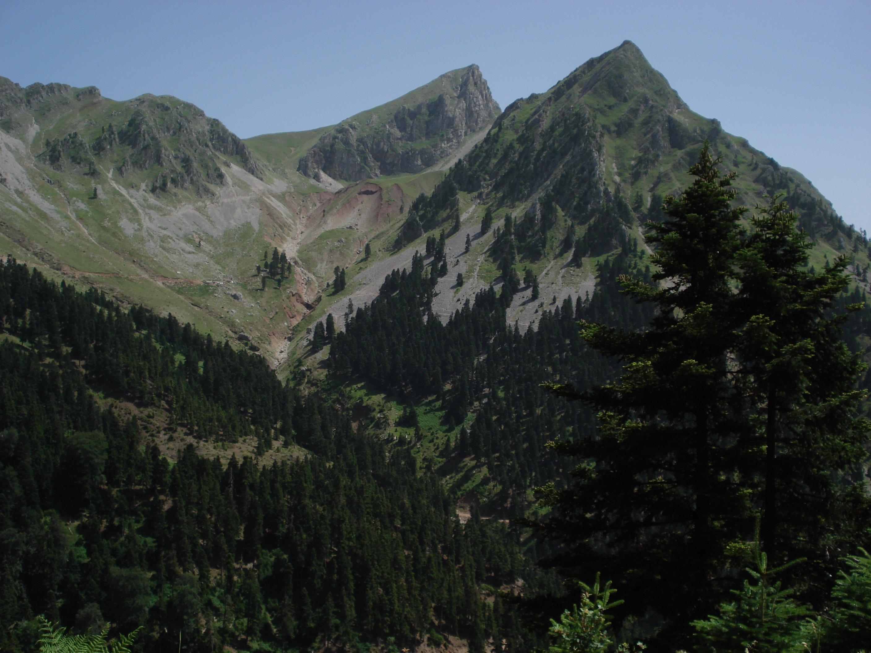 This is a photography of Natura 2000 protected area with ID GR1410002